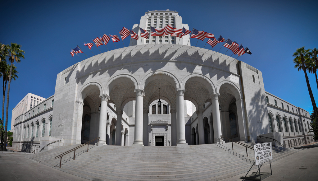 Los Angeles City Hall.